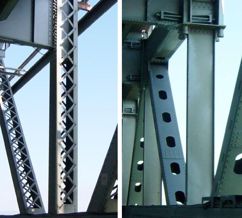 Side by side version of Image:San Francisco Oakland Bay Bridge Retrofit 2-cropped.jpg and Image:San Francisco Oakland Bay Bridge Retrofit 3.jpg (both cropped further) to try to fix image wrapping and structure on bay bridge main page